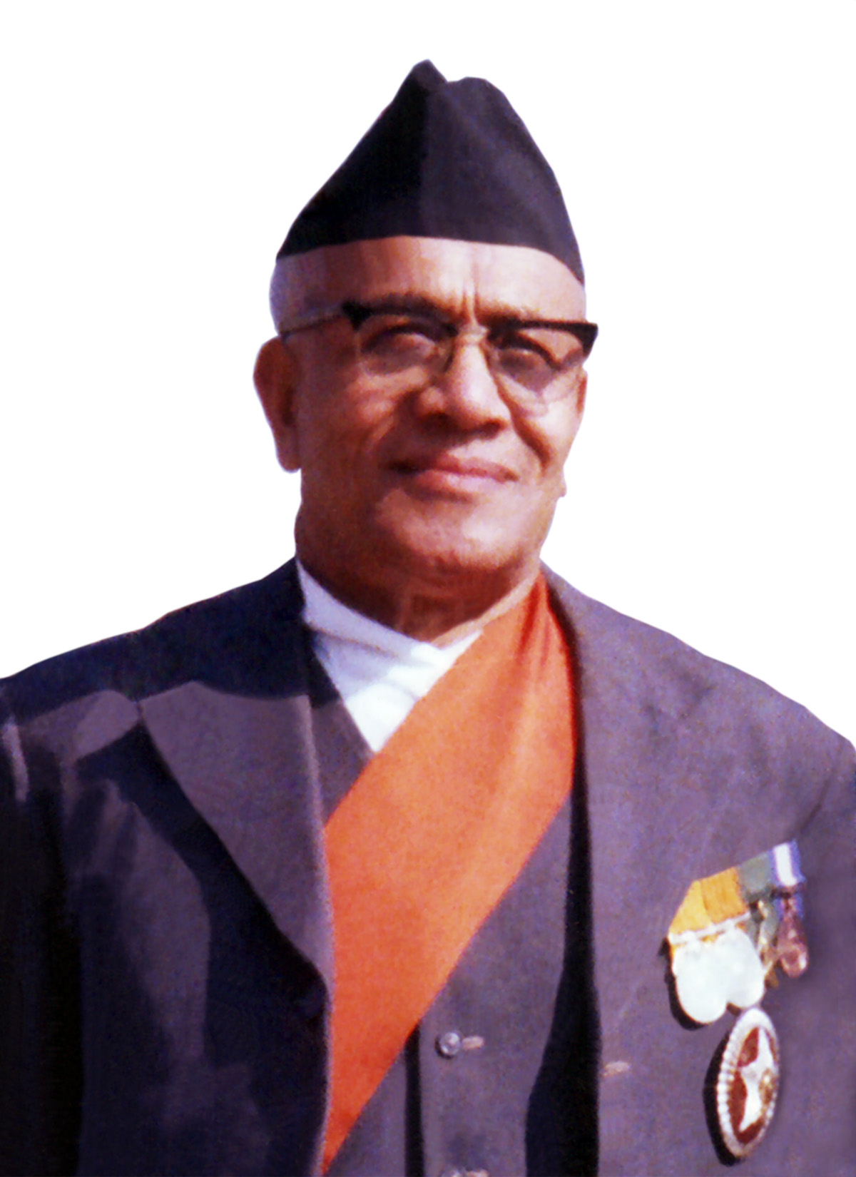 Portrait of Kul Ratna Tuladhar, Nepal's first chief engineer.